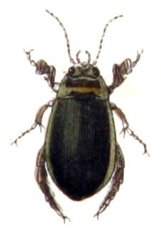 Graphoderus zonatus, from Calwer's Käferbuch, Table 7, Picture 6. Taxonomy was updated to 2008, using mostly the sites Fauna Europaea and BioLib. Please contact Sarefo if the determination is wrong!